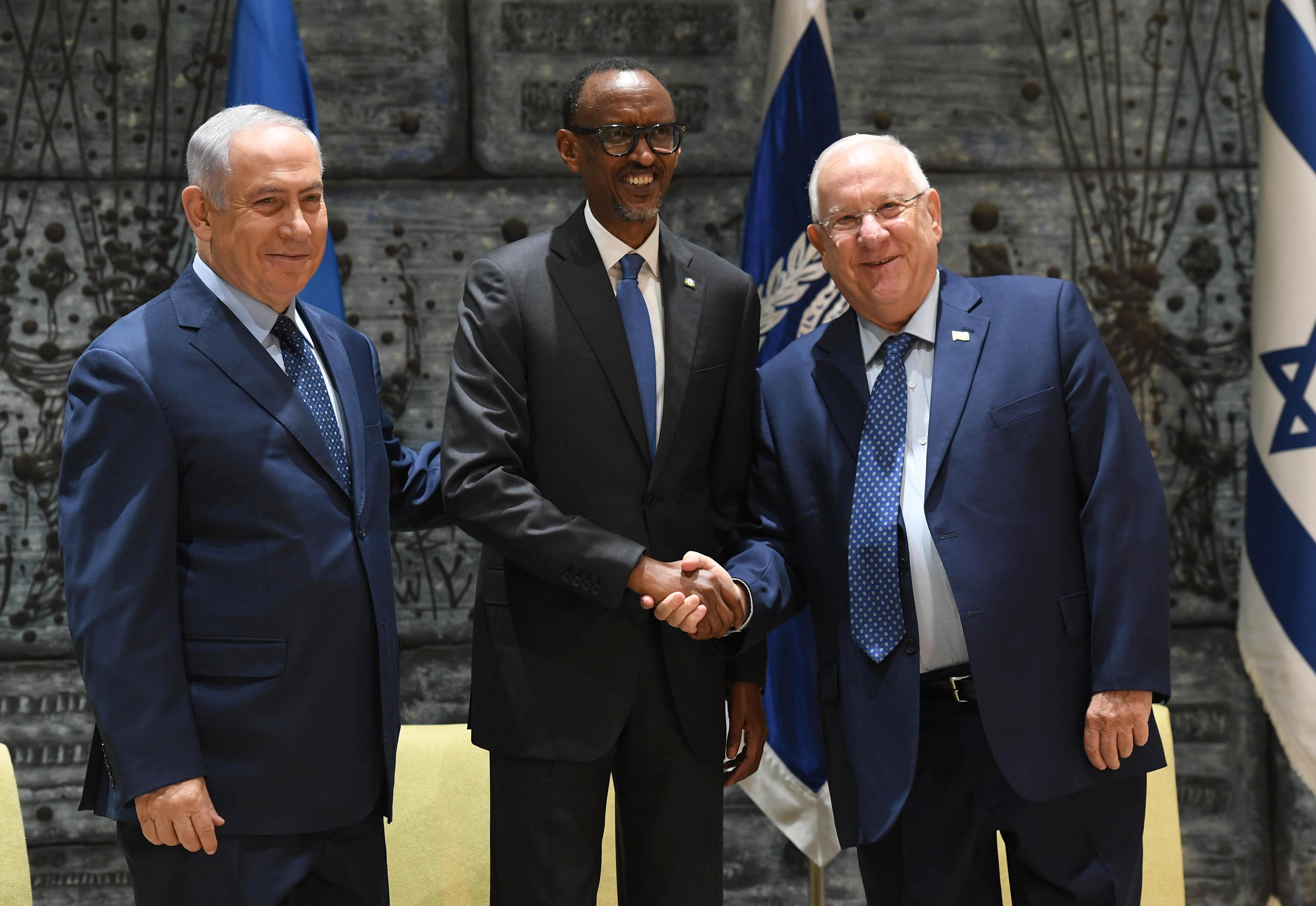 The President of the State of Israel, Reuven Rivlin, received the President of Rwanda together with Prime Minister Benjamin Netanyahu at Beit HaNassi, and held a working meeting with him. Monday, July 10, 2017.